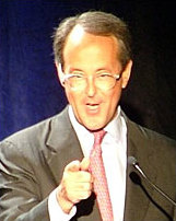 White House Photo, Erskine Bowles, US Govt.